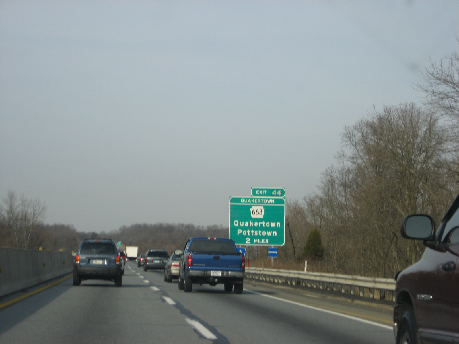 A standard guide sign on I-476.